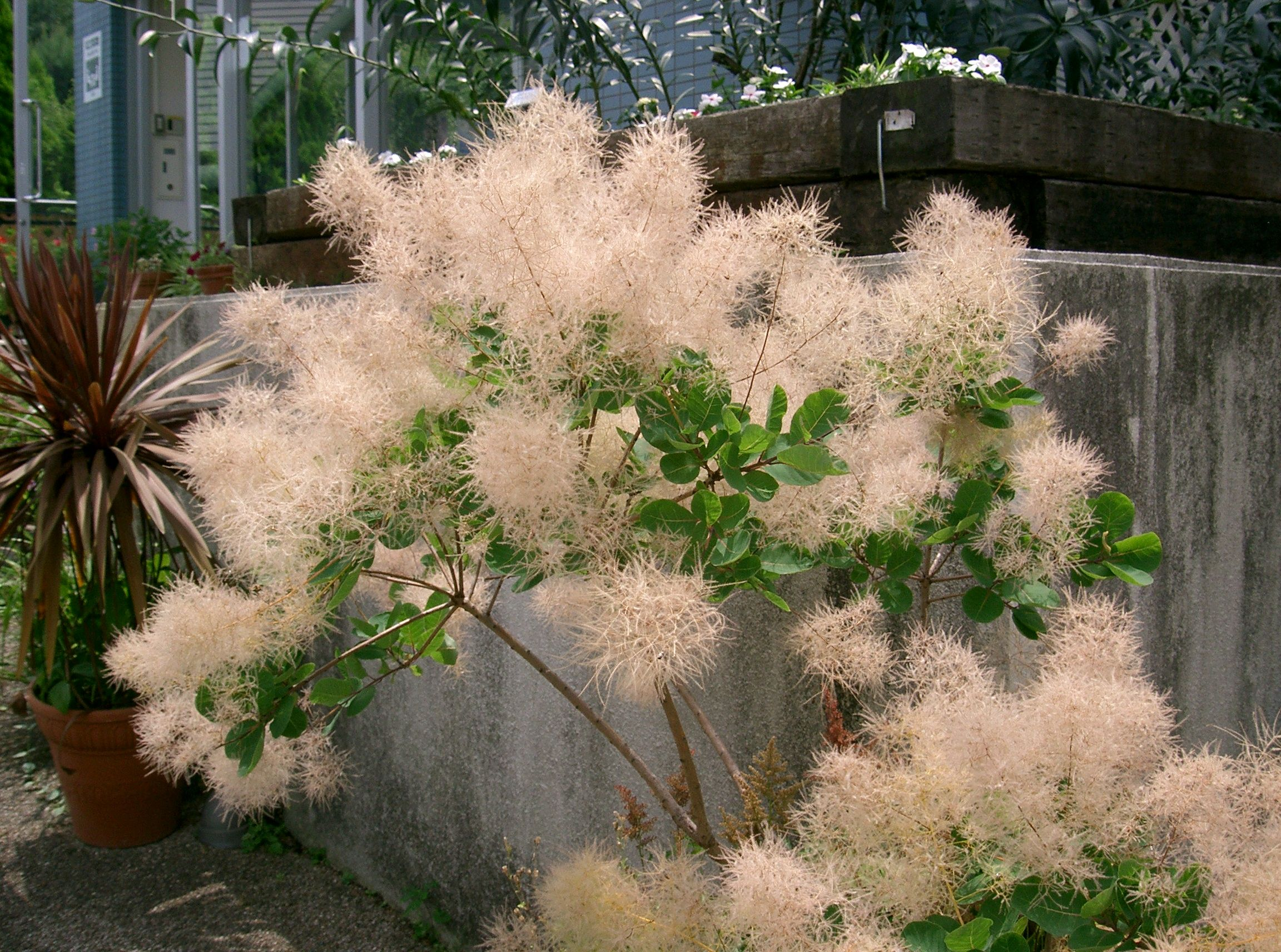 Cotinus coggygria